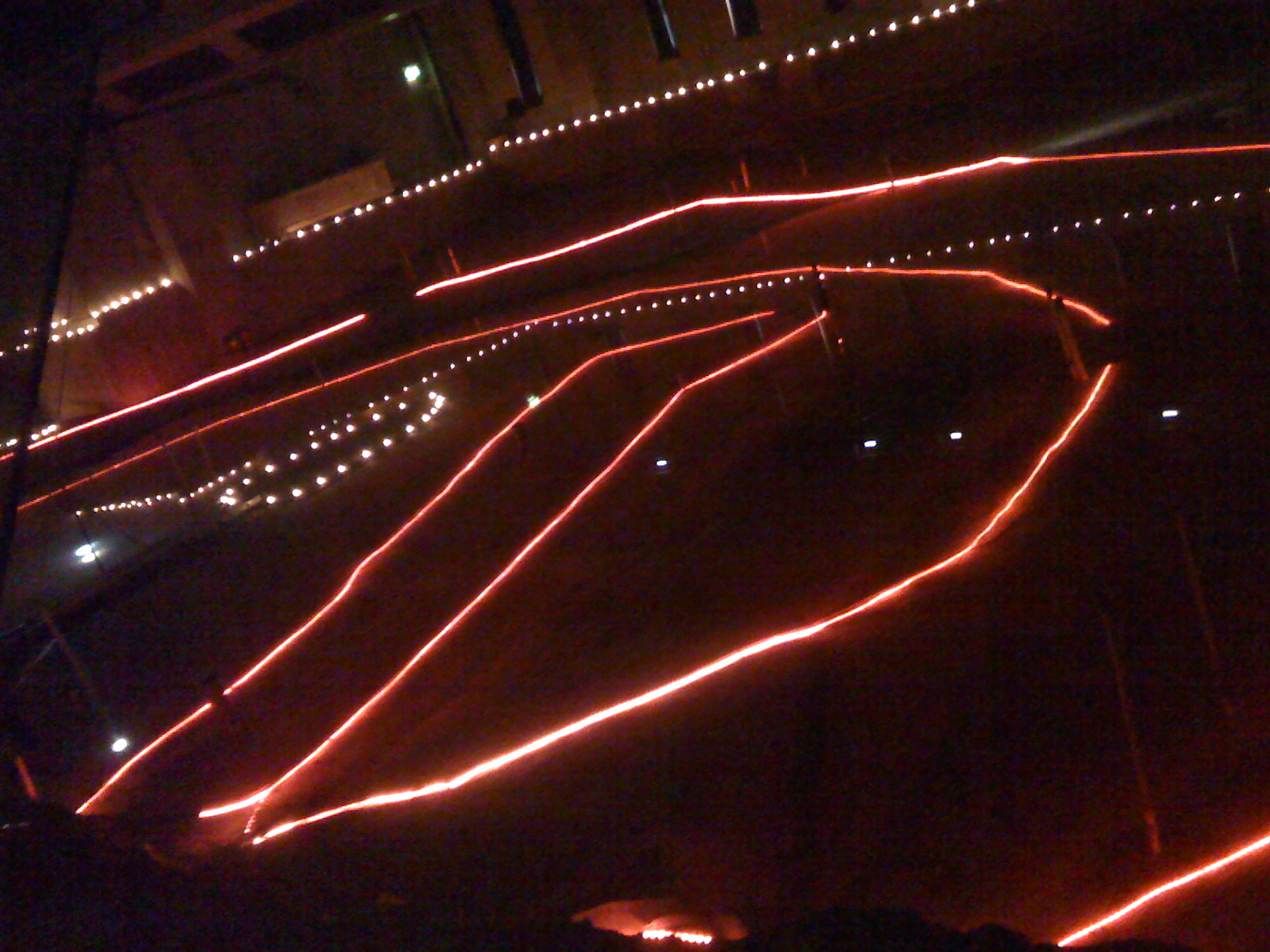 Lights showing where the Rose Theatre originally stood on the south bank in London